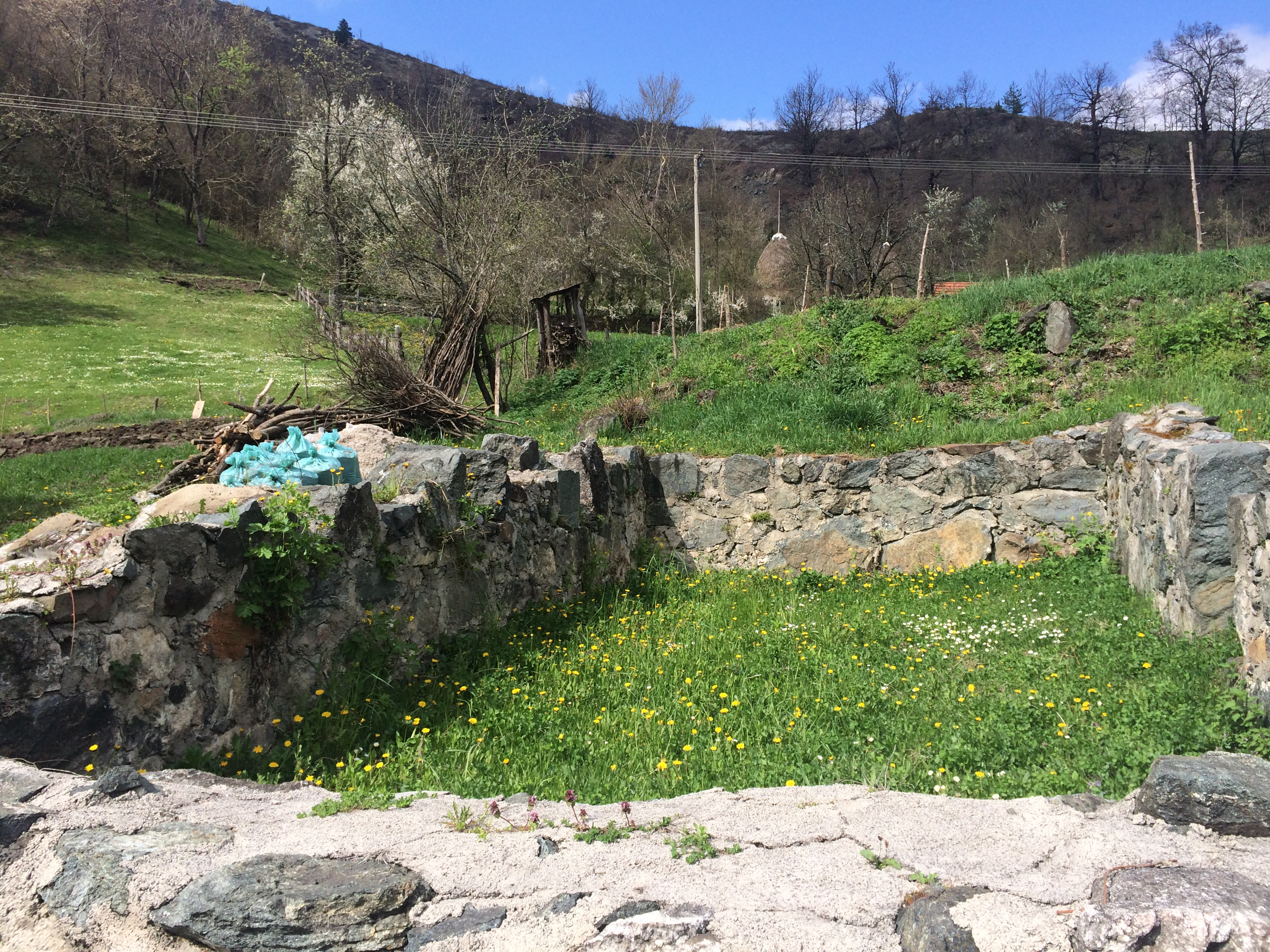 Image of the Mažići Monastery of Saint Georg, in the municipality of Priboj, southwestern Serbia.